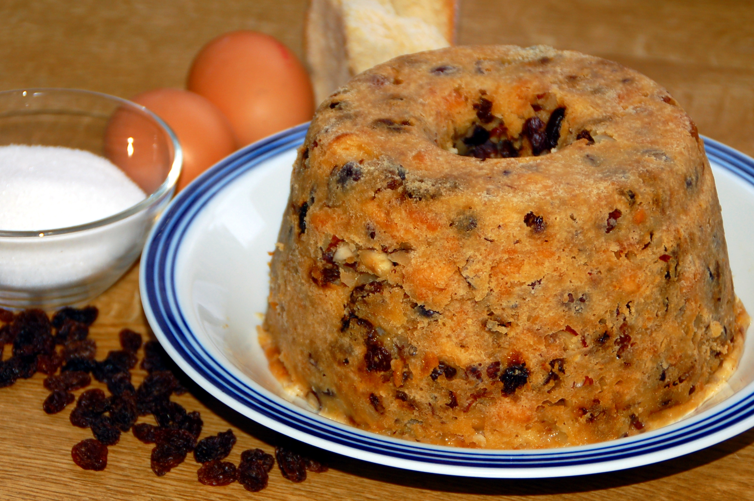 Northern German dish, either savoury or sweet.